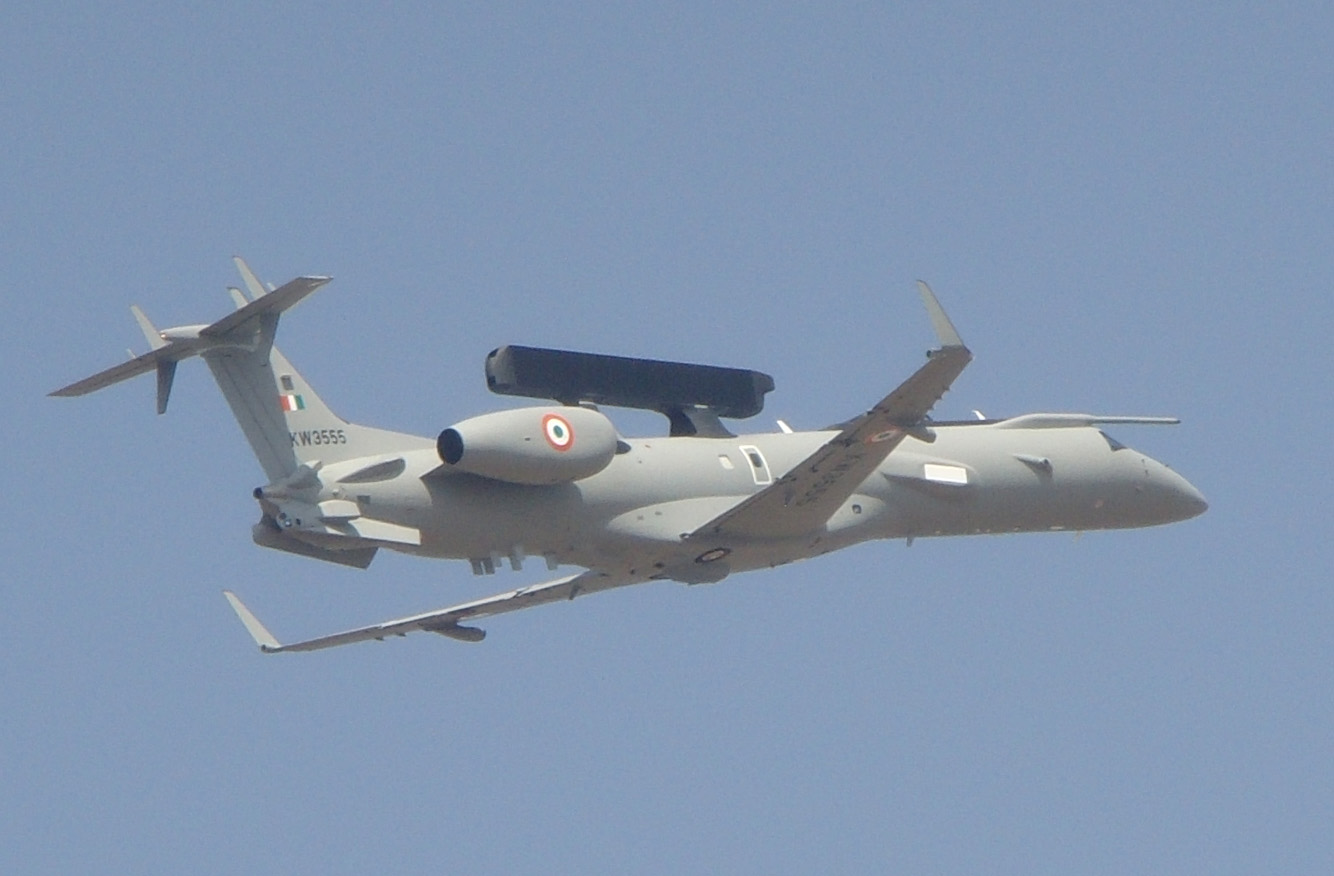 DRDO AEW&C, on Embraer ERJ 145 as a platform, Fly pass at Aero India 2013